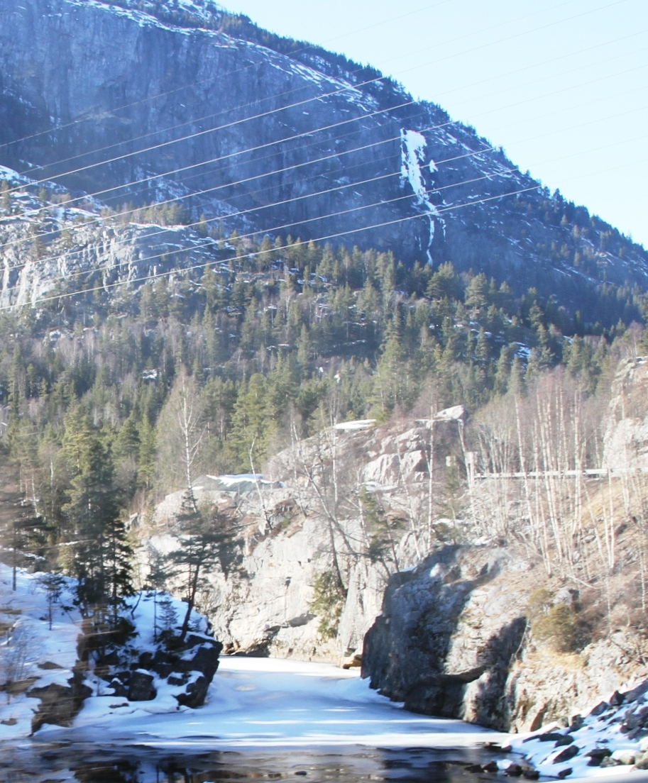 Image from along the E134 highway, in Seljord municipality, Telemark county (Norway)